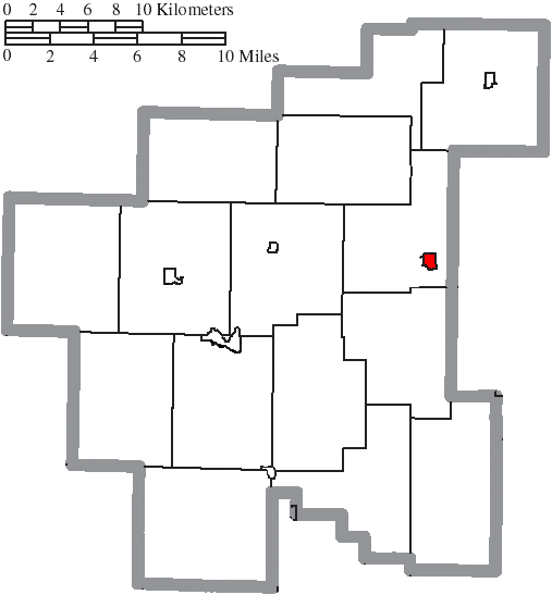 Map of the municipal and township boundaries of Noble County, Ohio, United States, as of the 2000 census, with the location of the village of Summerfield highlighted. Township borders are shown only in unincorporated areas in order to differentiate incorporated and unincorporated areas more clearly.